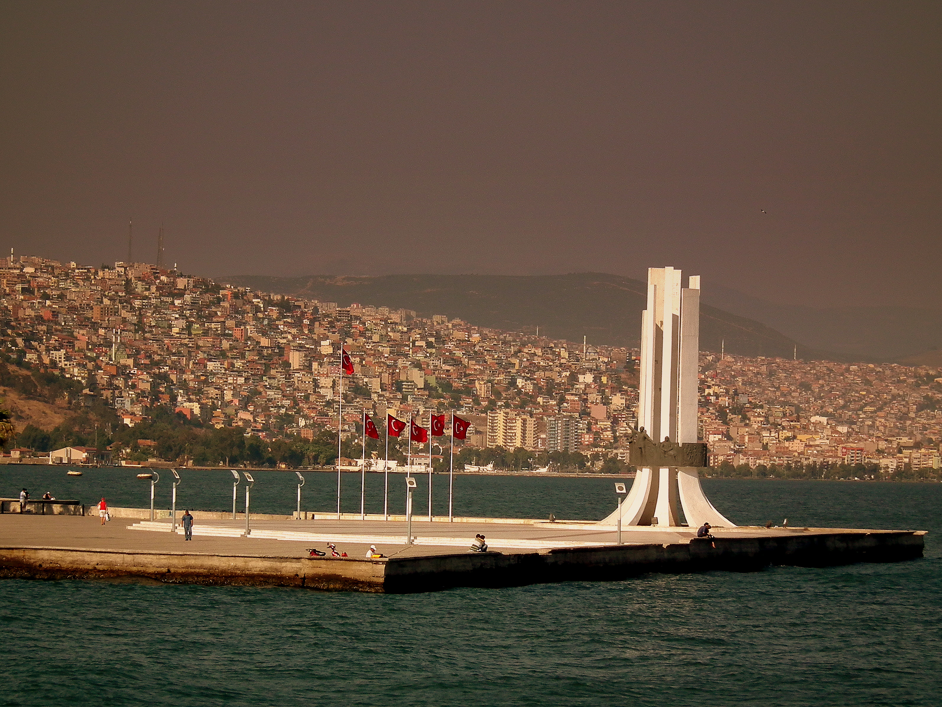 IZMIR BAY TURKEY AUGUST 2011